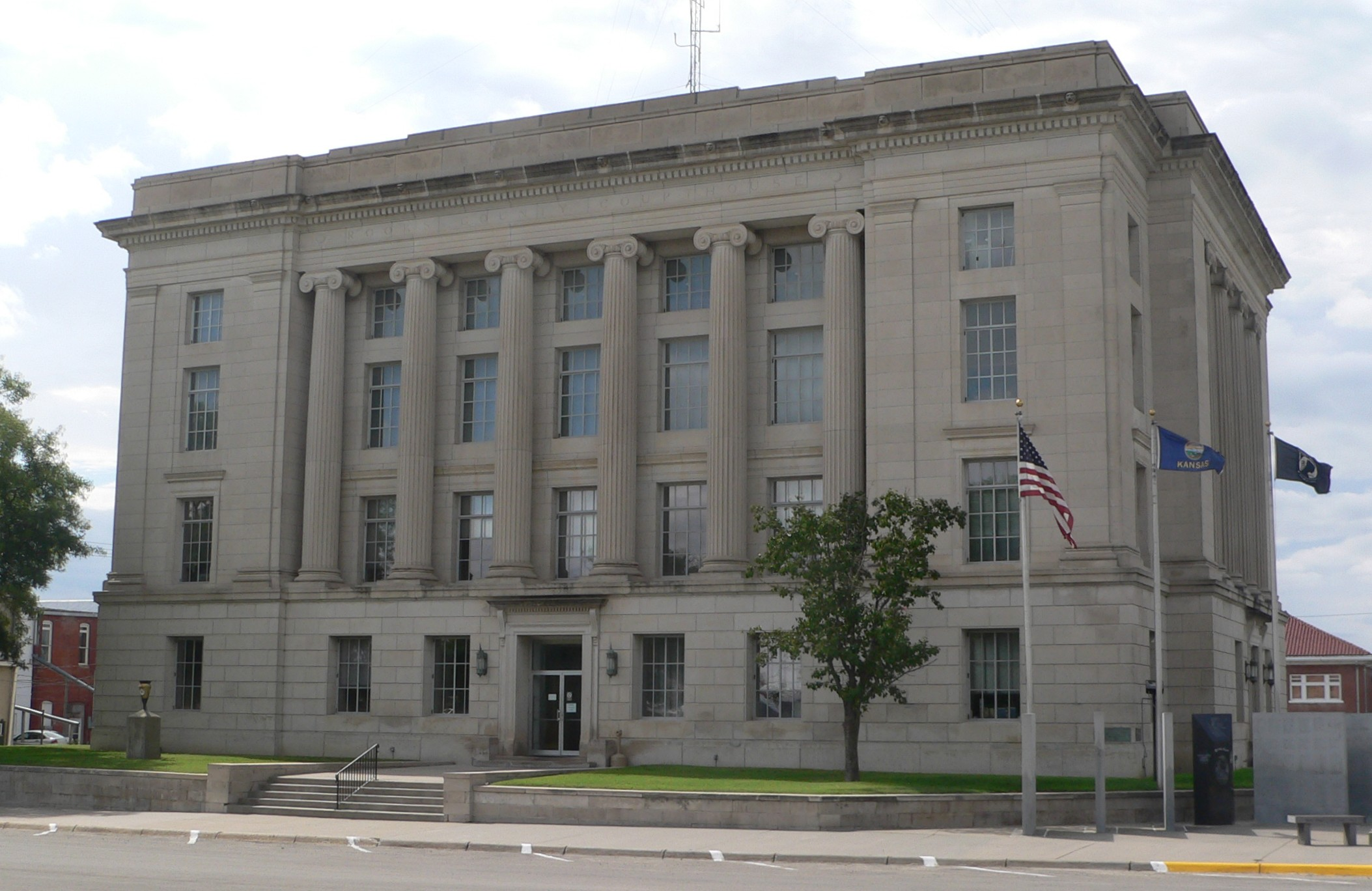 Rooks County courthouse, in Stockton, Kansas; seen from the northeast.